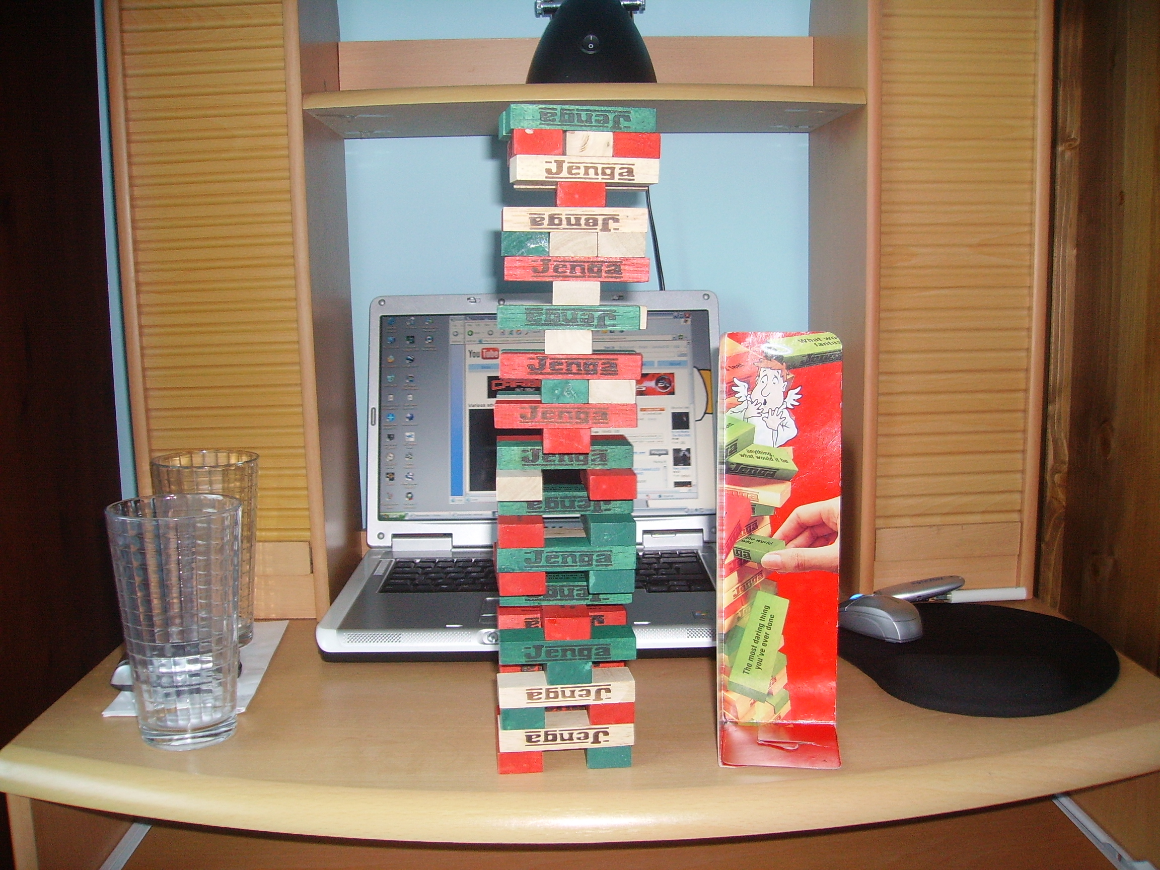 A Jenga Truth or Dare game in progress